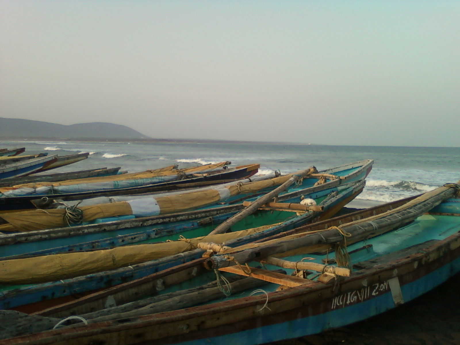 Boats at Bhimili beach in Visakhapatnam